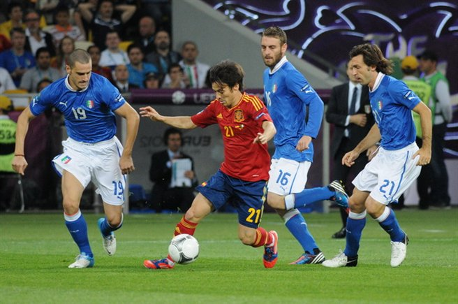 Leonardo Bonucci, David Silva, Daniele De Rossi and Andrea Pirlo at Euro 2012 final Spain-Italy